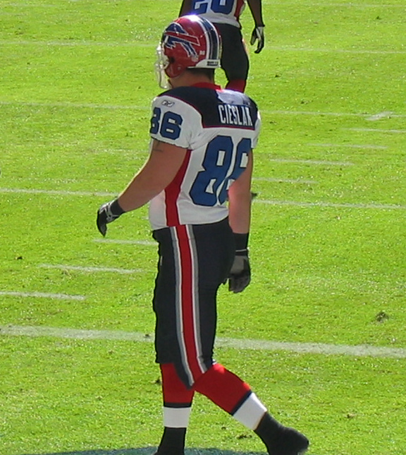 Buffalo Bills players Brad Cieslak, Sam Aiken and Ashton Youboty in a 2006 game against the Houston Texans.